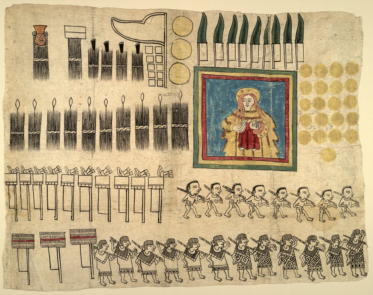 The Huexotzinco Codex is an eight-sheet document on amatl, a pre-European paper made in Mesoamerica. It is part of the testimony in a legal case against representatives of the colonial government in Mexico, ten years after the Spanish conquest in 1521. Huexotzinco is a town southeast of Mexico City, in the state of Puebla. In 1521, the Nahua Indian people of the town were the allies of the Spanish conqueror Hernando Cortés, and together they confronted their enemies to overcome Moctezuma, leader of the Aztec Empire. After the conquest, the Huexotzinco peoples became part of Cortés's estates. During 1529-30, when Cortés was out of the country, Spanish colonial administrators intervened in the daily activities of the community and forced the Nahuas to pay excessive taxes in the form of goods and services. When Cortés returned, the Nahuas joined him in a legal case against the abuses of the Spanish administrators. The plaintiffs were successful in their suit in Mexico, and later when it was retried in Spain. The record shows (in a document uncovered in the collections of the Library of Congress) that in 1538, King Charles of Spain agreed with the judgment against the Spanish administrators and ruled that two-thirds of all tributes taken from the people of Huexotzinco be returned. Codex; Depositions; Indians of Mexico; Indigenous peoples; Mesoamerica; Nahua Indians; Taxation; Testimony; Trials